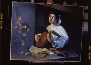 Apollo the Luteplayer by Michelangelo da Caravaggio during cleaning